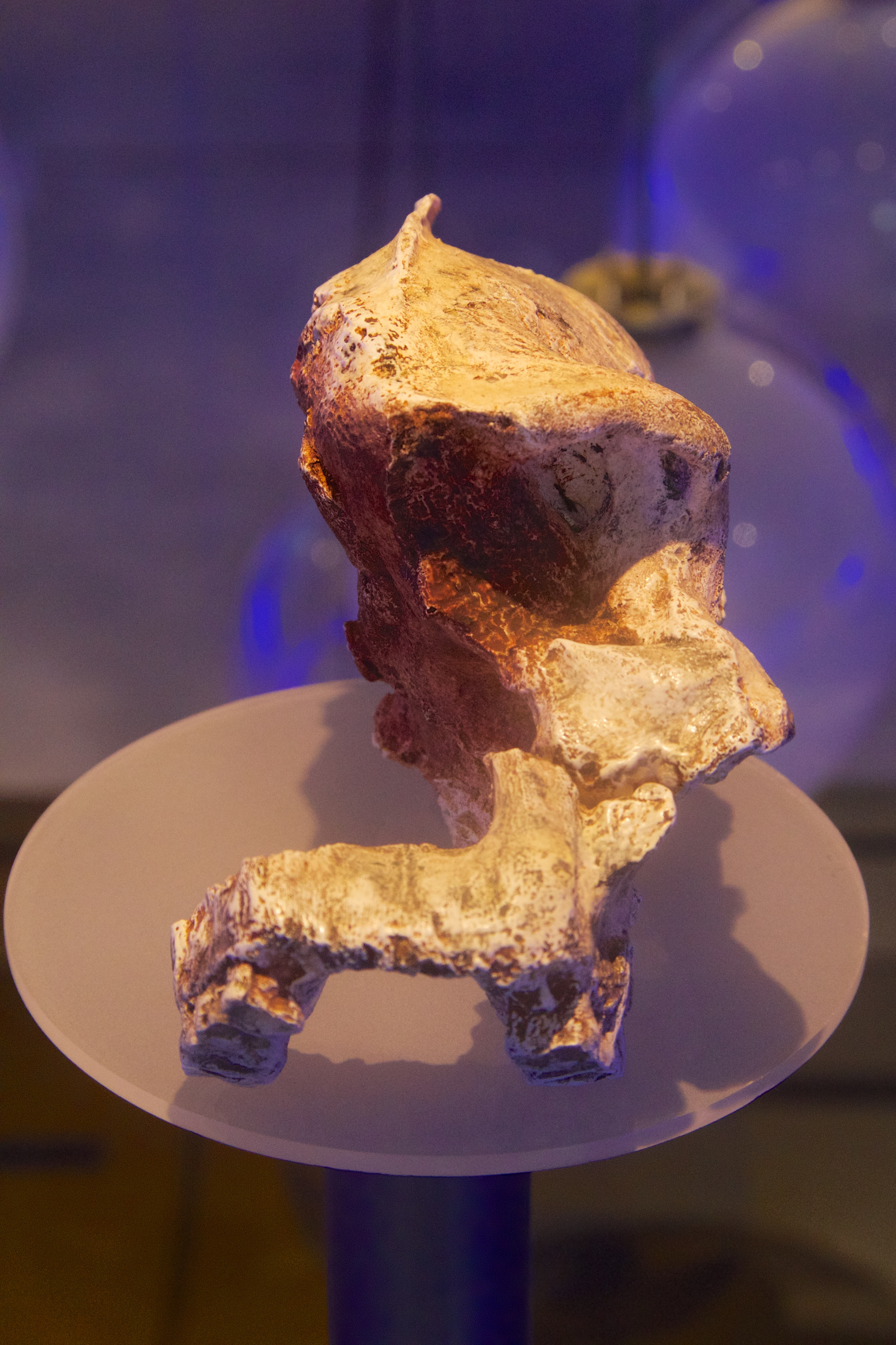 Paranthropus robustus cranium SK46 at the Sterkfontein caves.